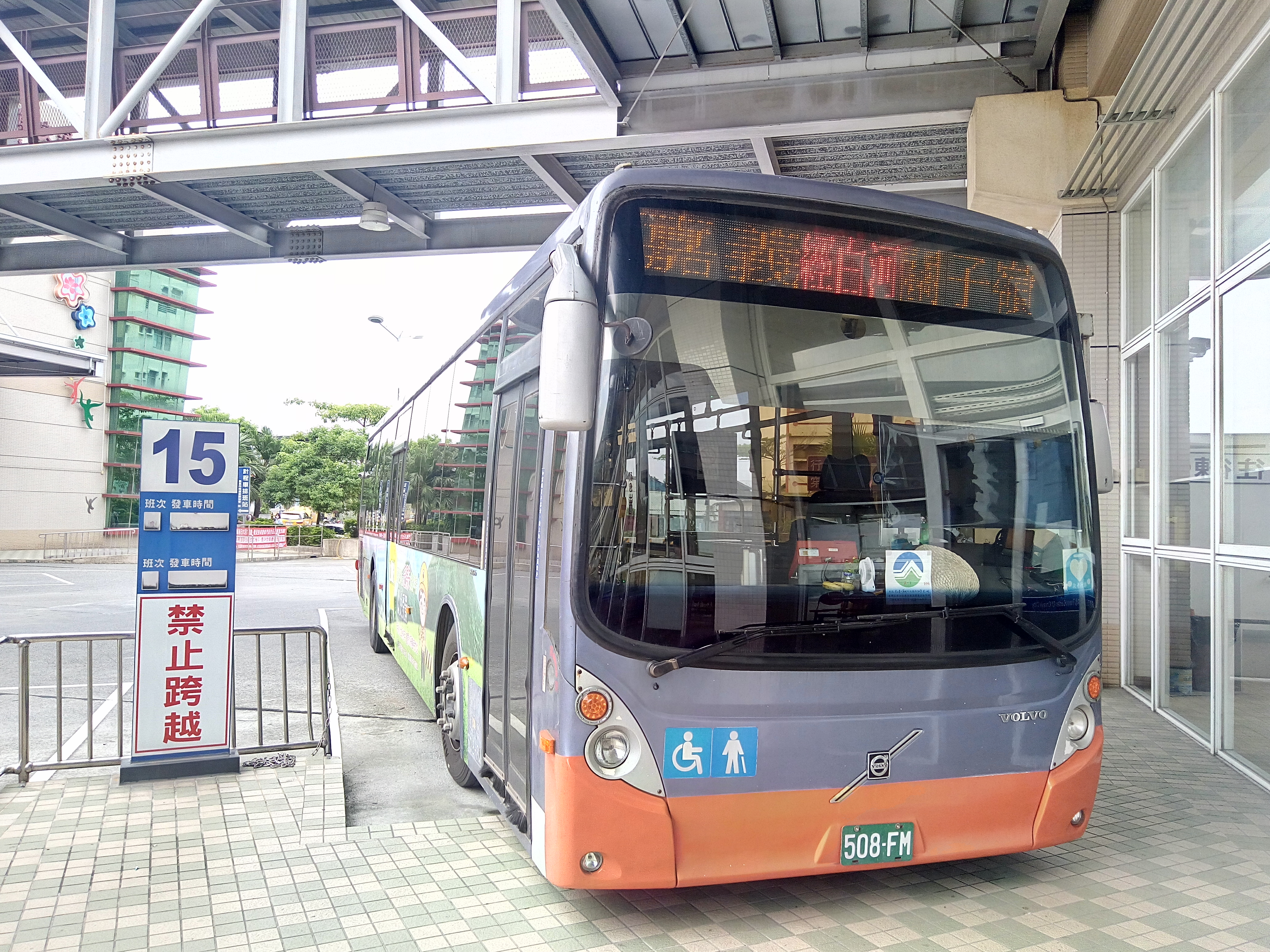 A Chiayi-Guanziling Volvo B7RLE bus 508-FM of Chiayi Bus, also called "black kong" by local people, stops at the 15th platform of the Transit Center of Chiay City.